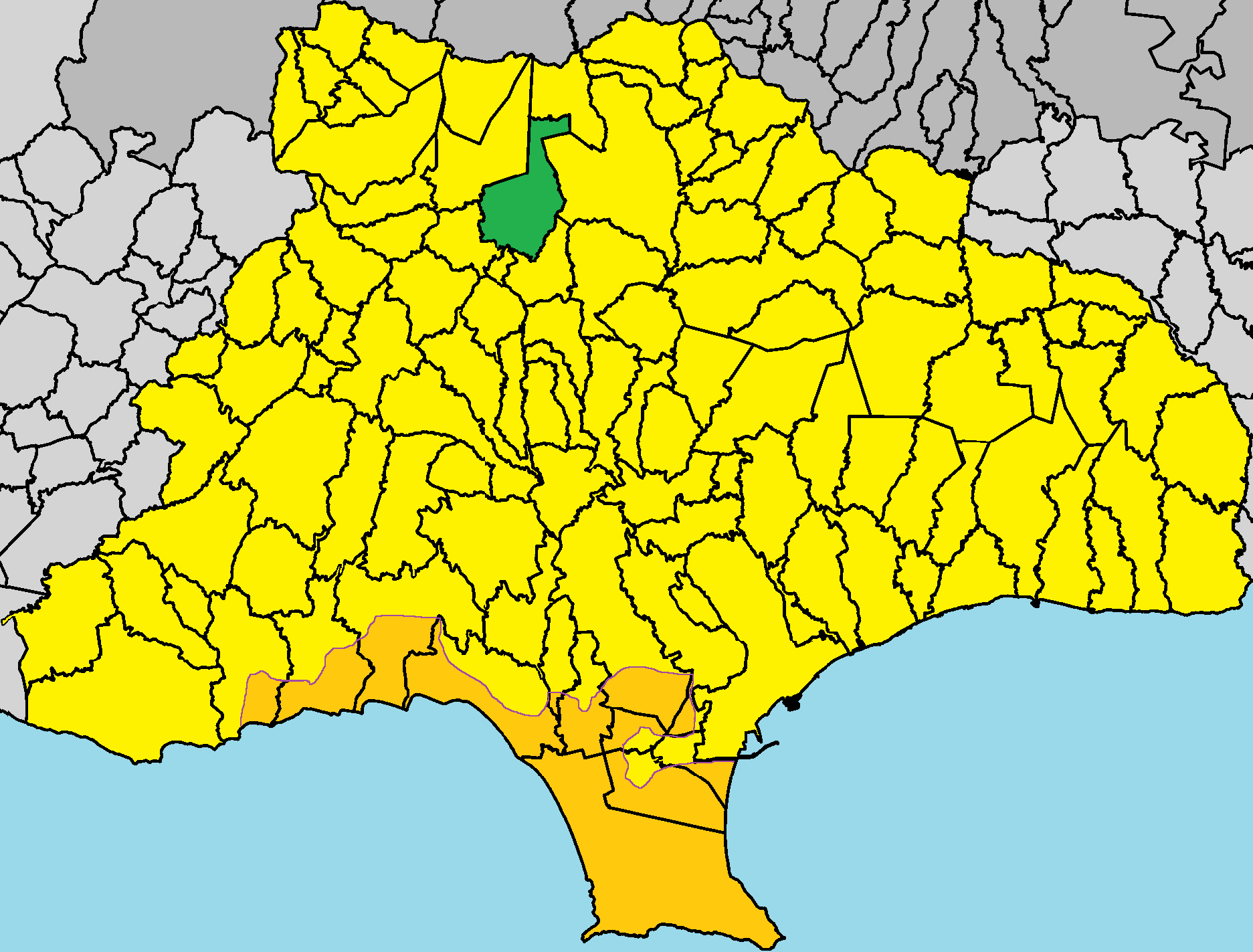 Moniatis in Limassol District.